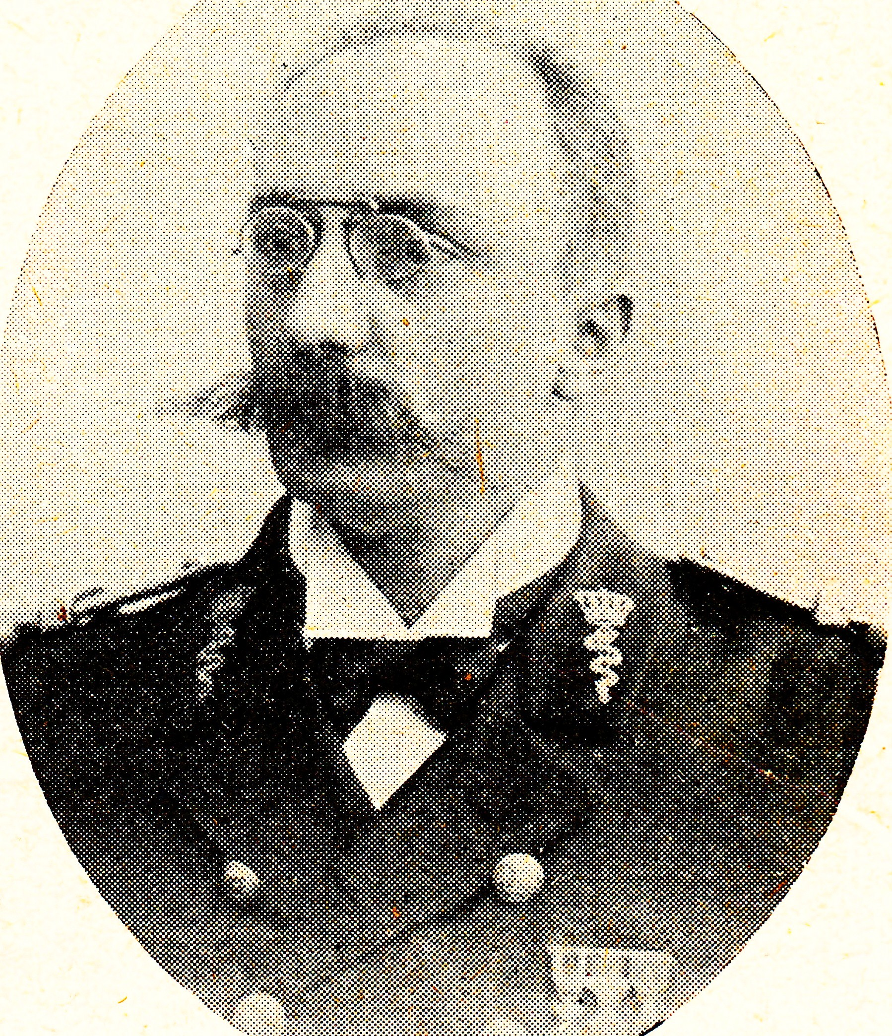 G.A.J. van der Sande